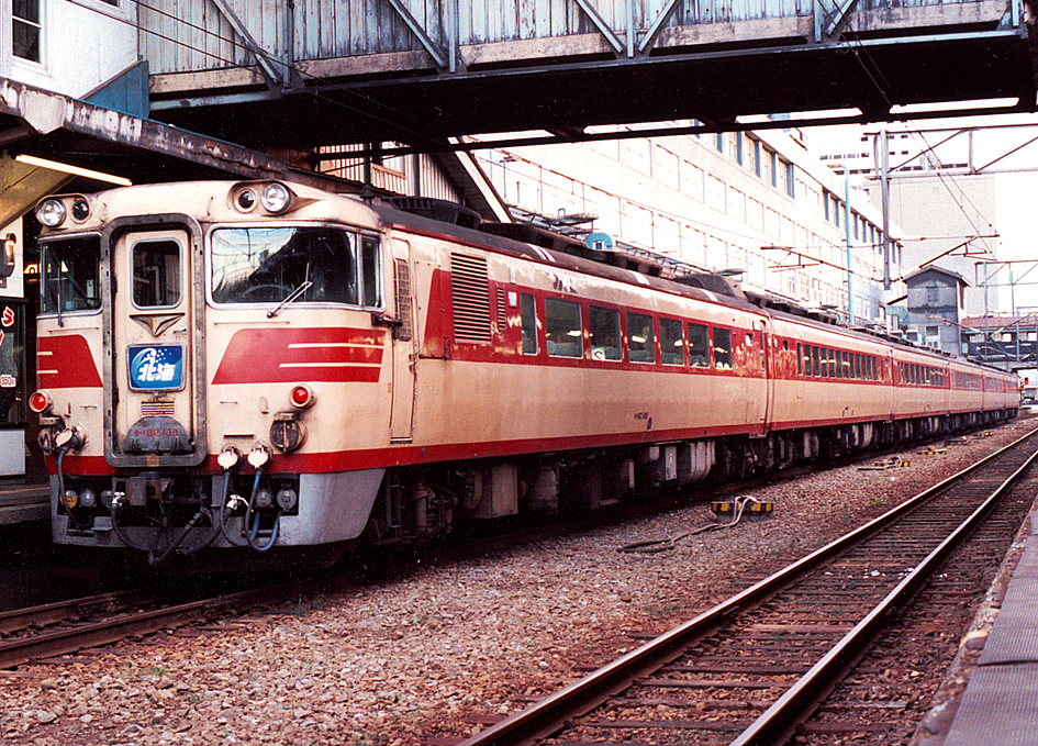 LTD. Express Hokkai by JNR 80 series DMU at Sapporo Station.